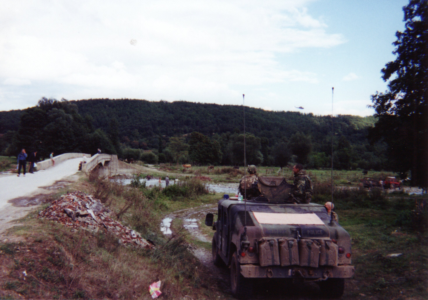 KFOR soldiers near the Kosovo / Macedonia border in Kosovo